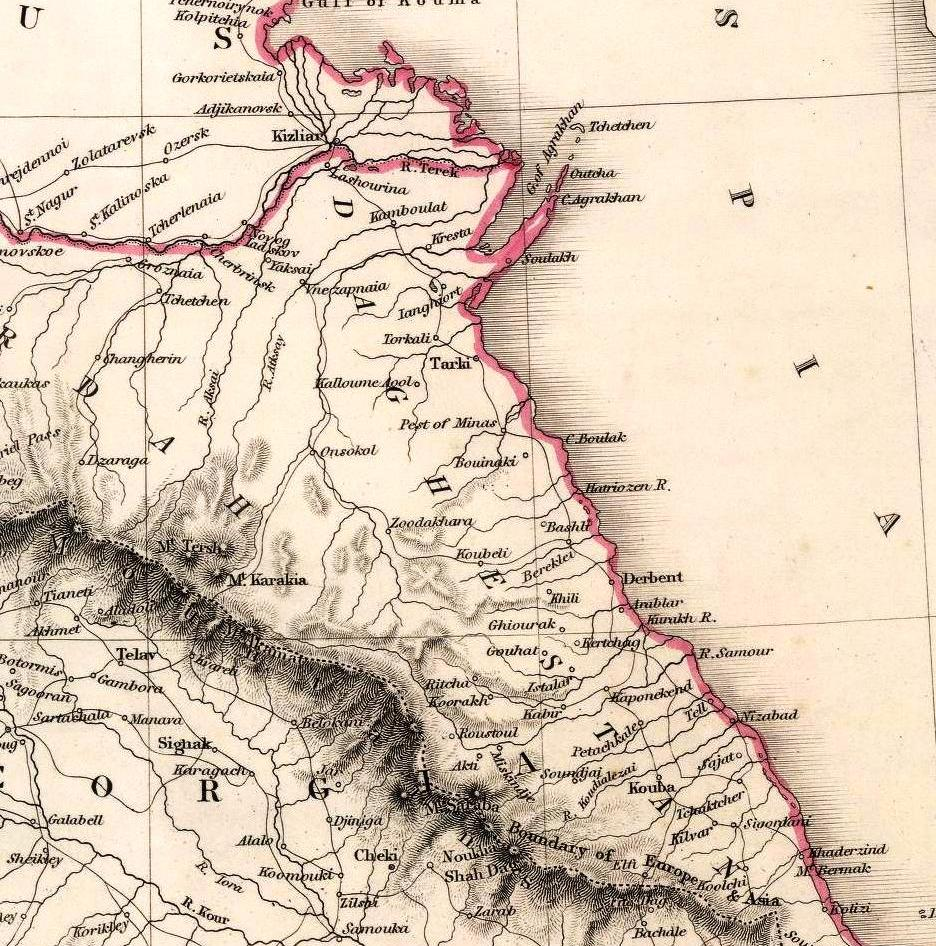 Sharpe's Corresponding Maps. Russia at the Caucasus. London - Published by Chapman and Hall, 186 Strand, 1847. Divisional Series.